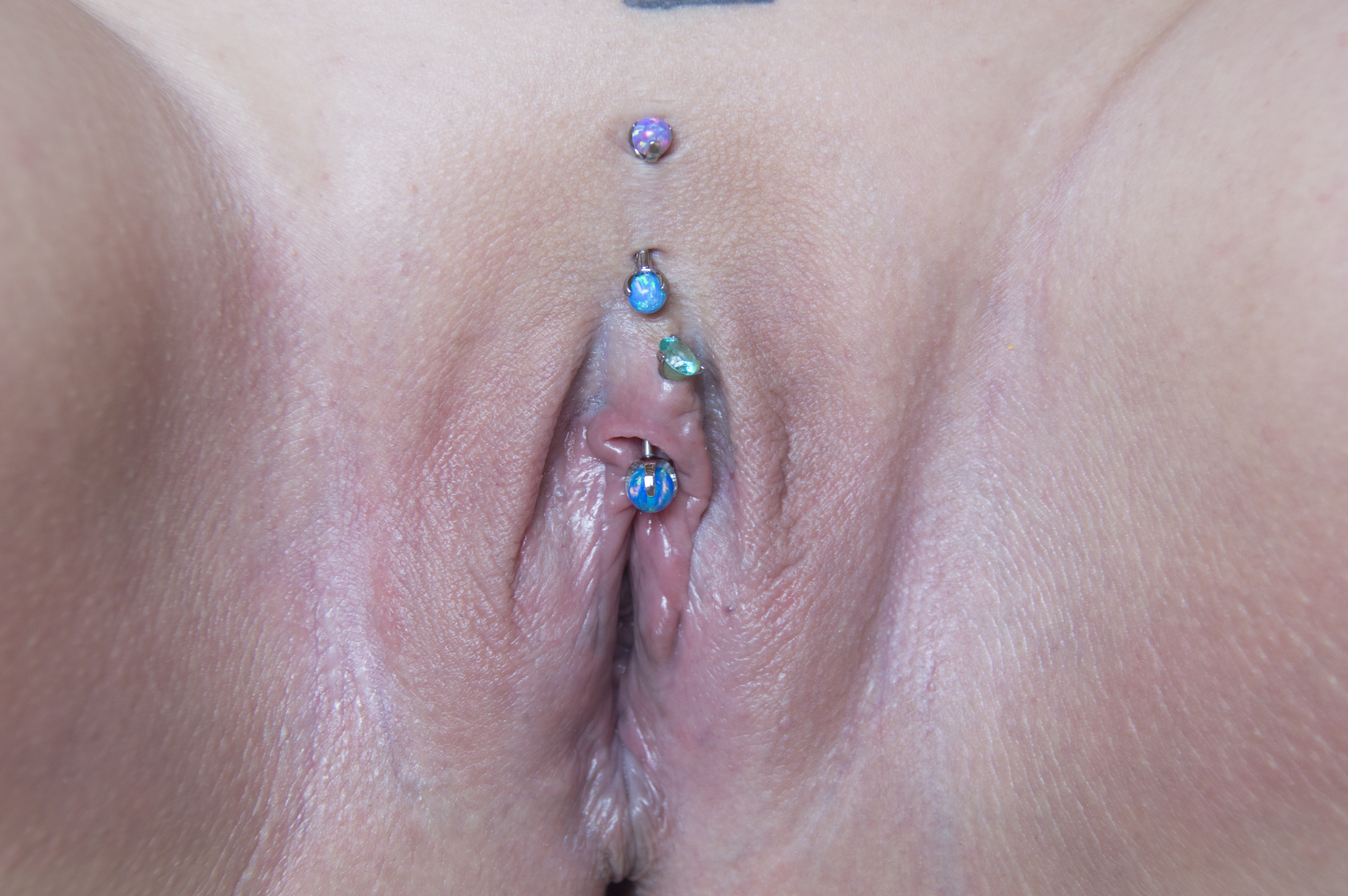 Christina Piercing + VCH Piercing